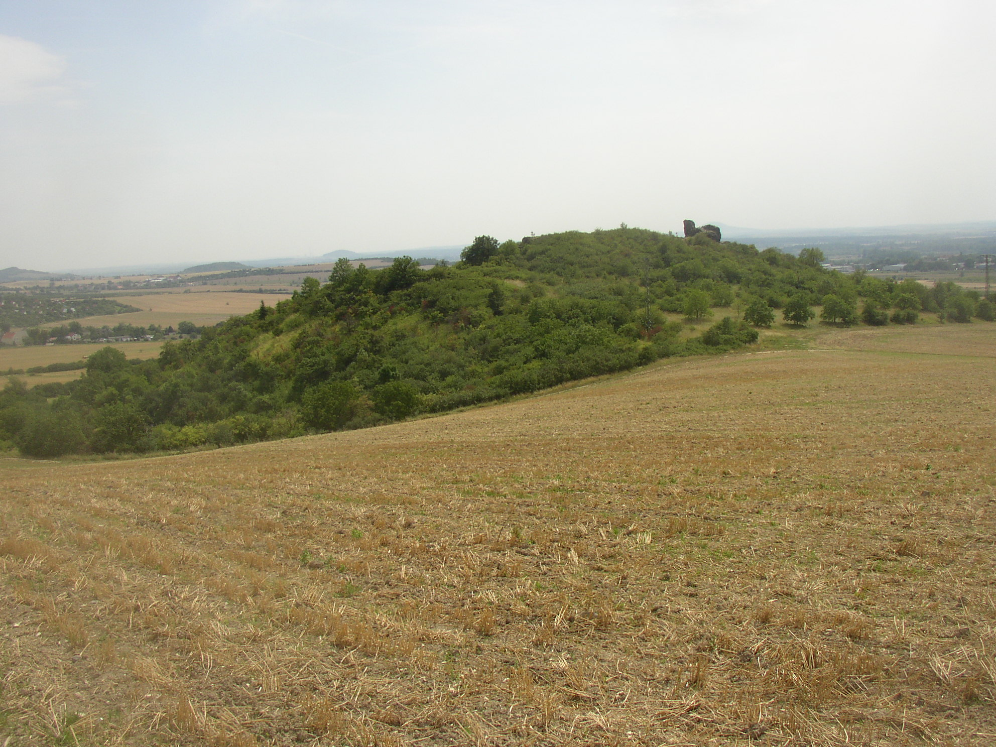 Baslat rock called Kočka (Cat) on top of Sovice hill (271 m) near Litoměřice, Czech Republic. A view from northwest.